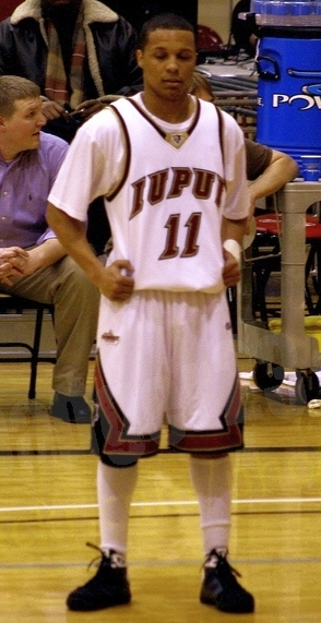 Adrian Moss with IUPUI on February 19, 2009.